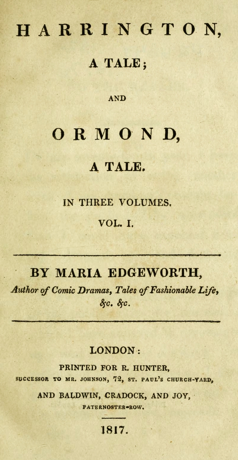 1st edition title page